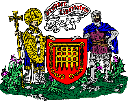 The Arms of the Royal Burgh of Arbroath, in Angus